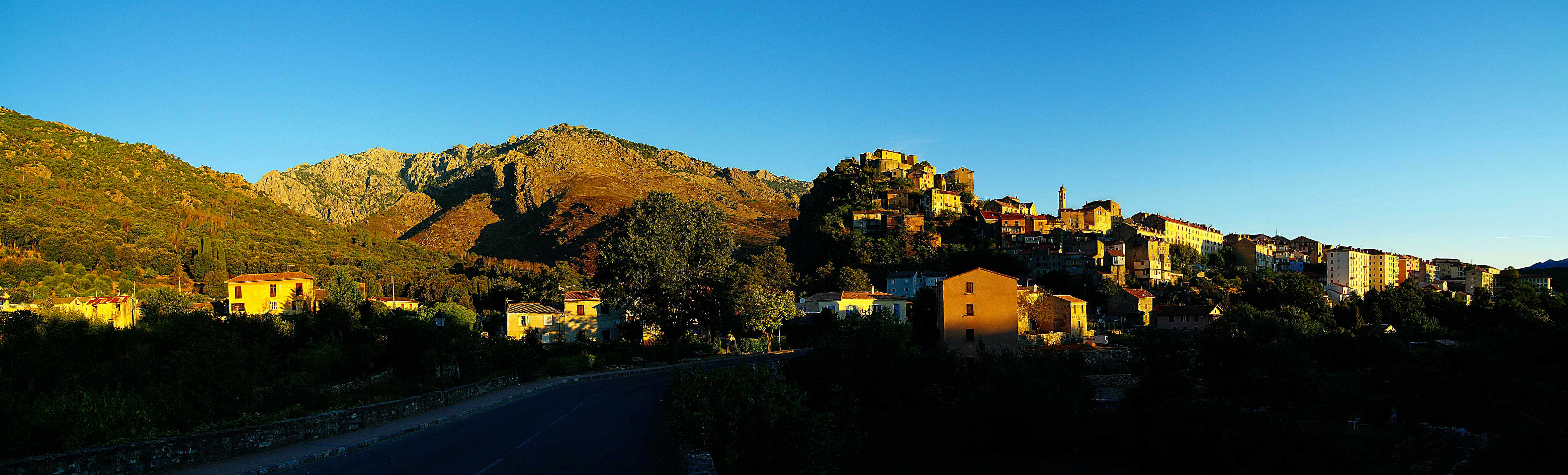 Panorama from 3 images of Corte, Corsica